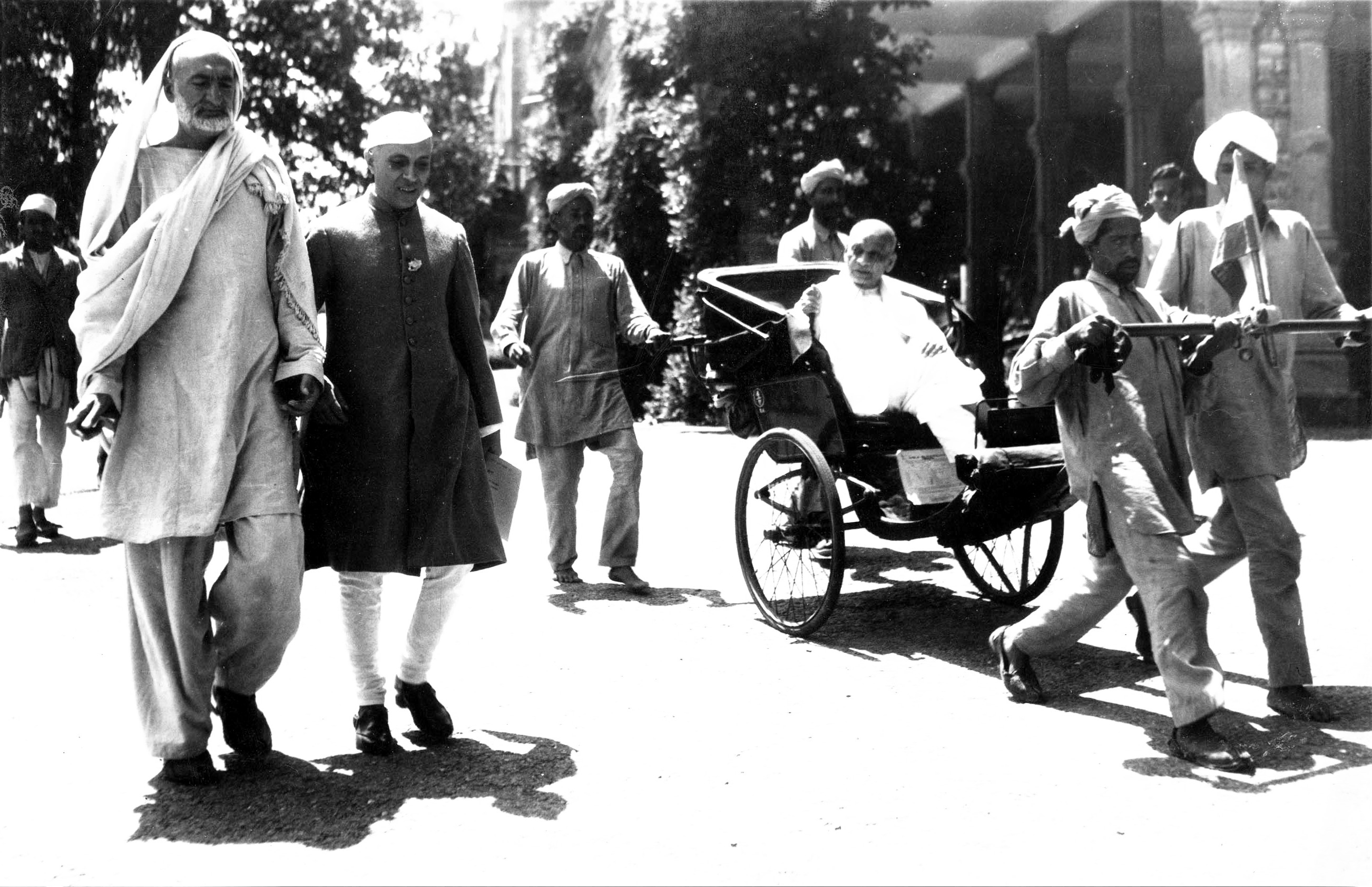 Abdul Ghafar Khan, Nehru, and Sardar Patel, Simla for the independence conference, 1946.